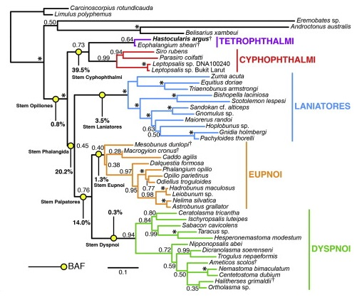 Phylogenetic Analyses of Opiliones Total evidence phylogeny incorporating morphology and molecules for extinct and extant species. Colored branches correspond to suborders. Numbers on nodes are posterior probabilities. Yellow icons indicate branch attachment frequencies for Tetraophthalmi.